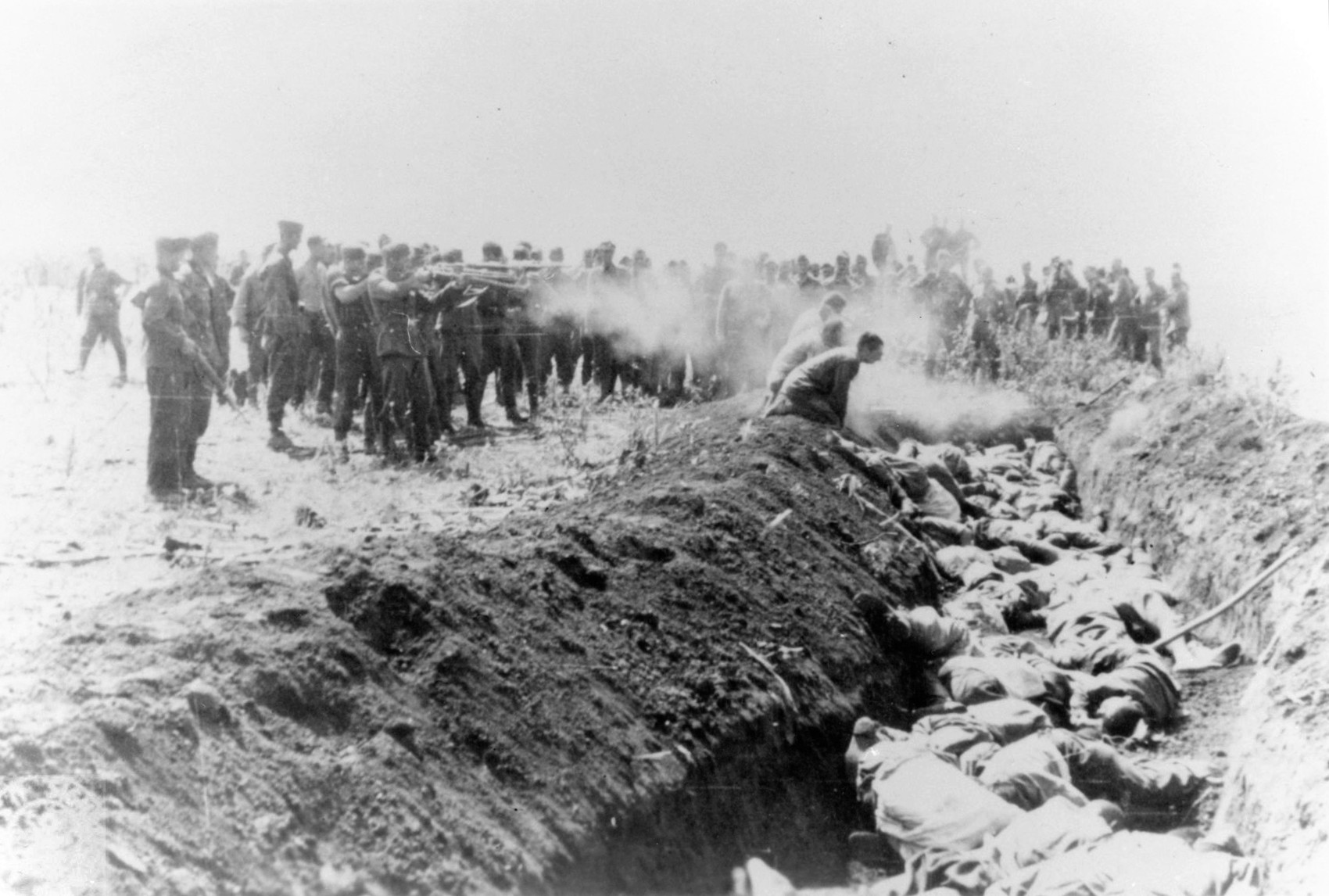 Evidence in Einsatzgruppen trial?